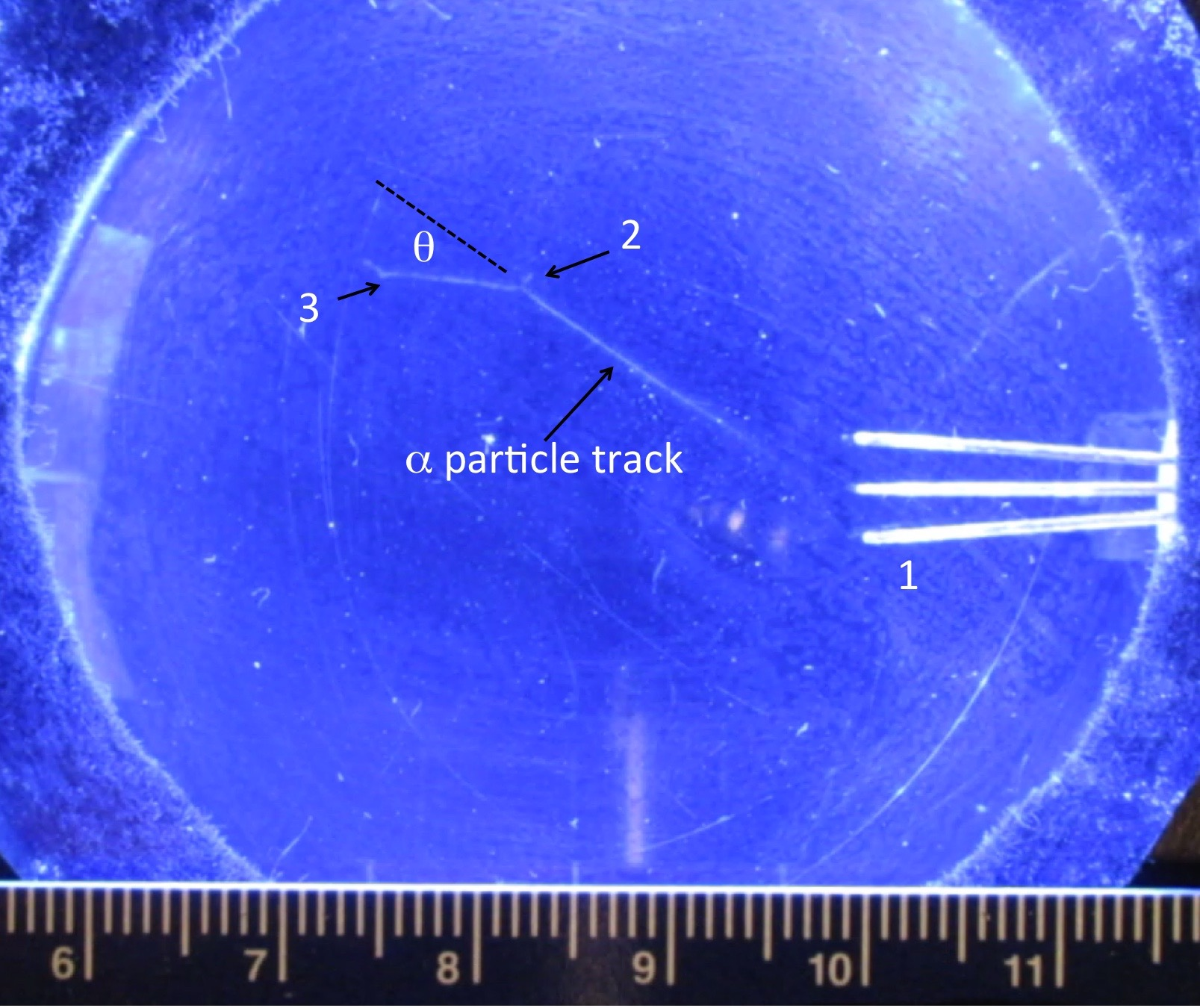 Rutherford scattering of an alpha particle from a Pb210 source in a diffusion cloud chamber.